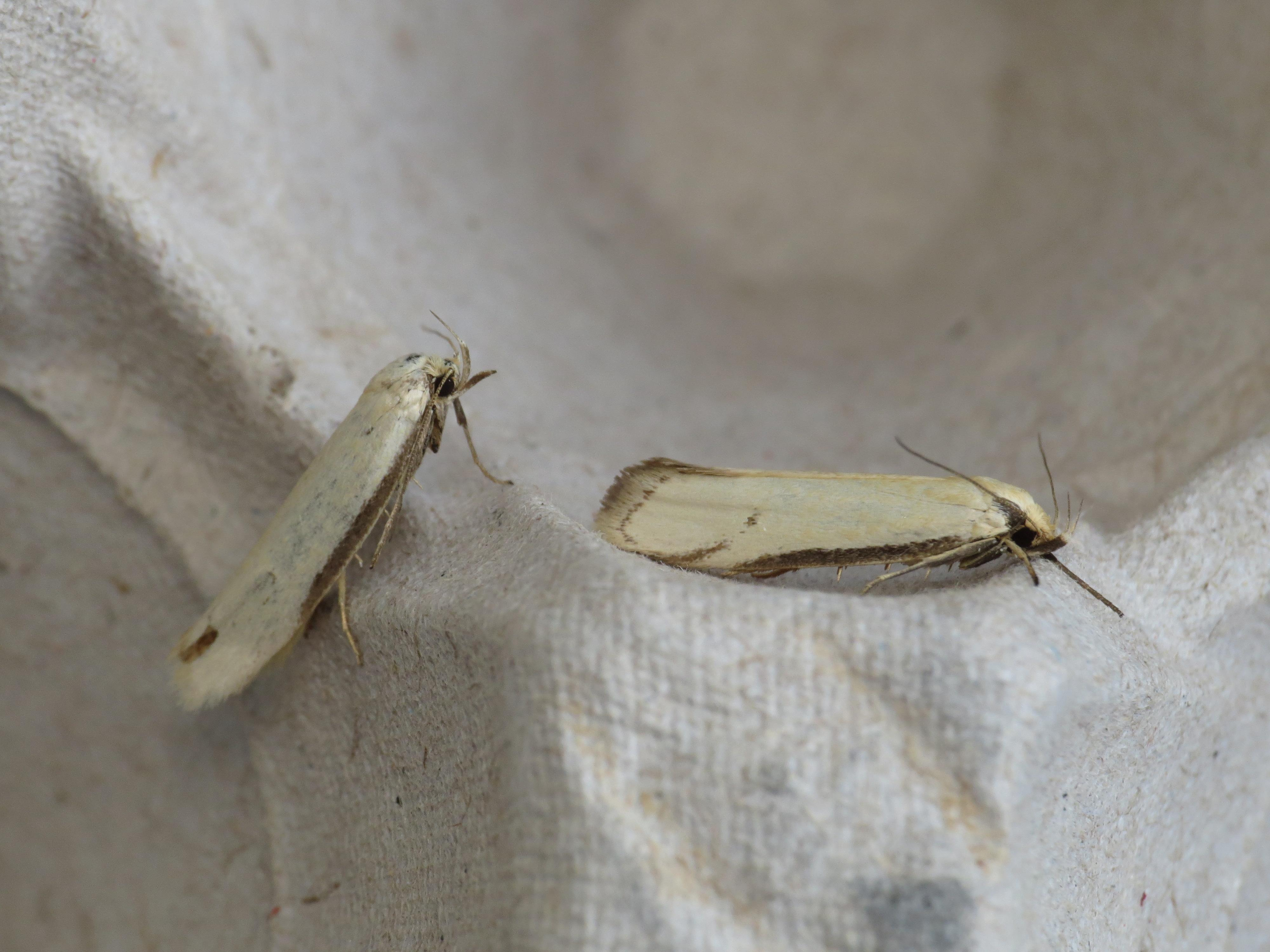 Philobota latifissella (Walker, 1864), to actinic light, Blackheath, NSW, 8/9 November 2014